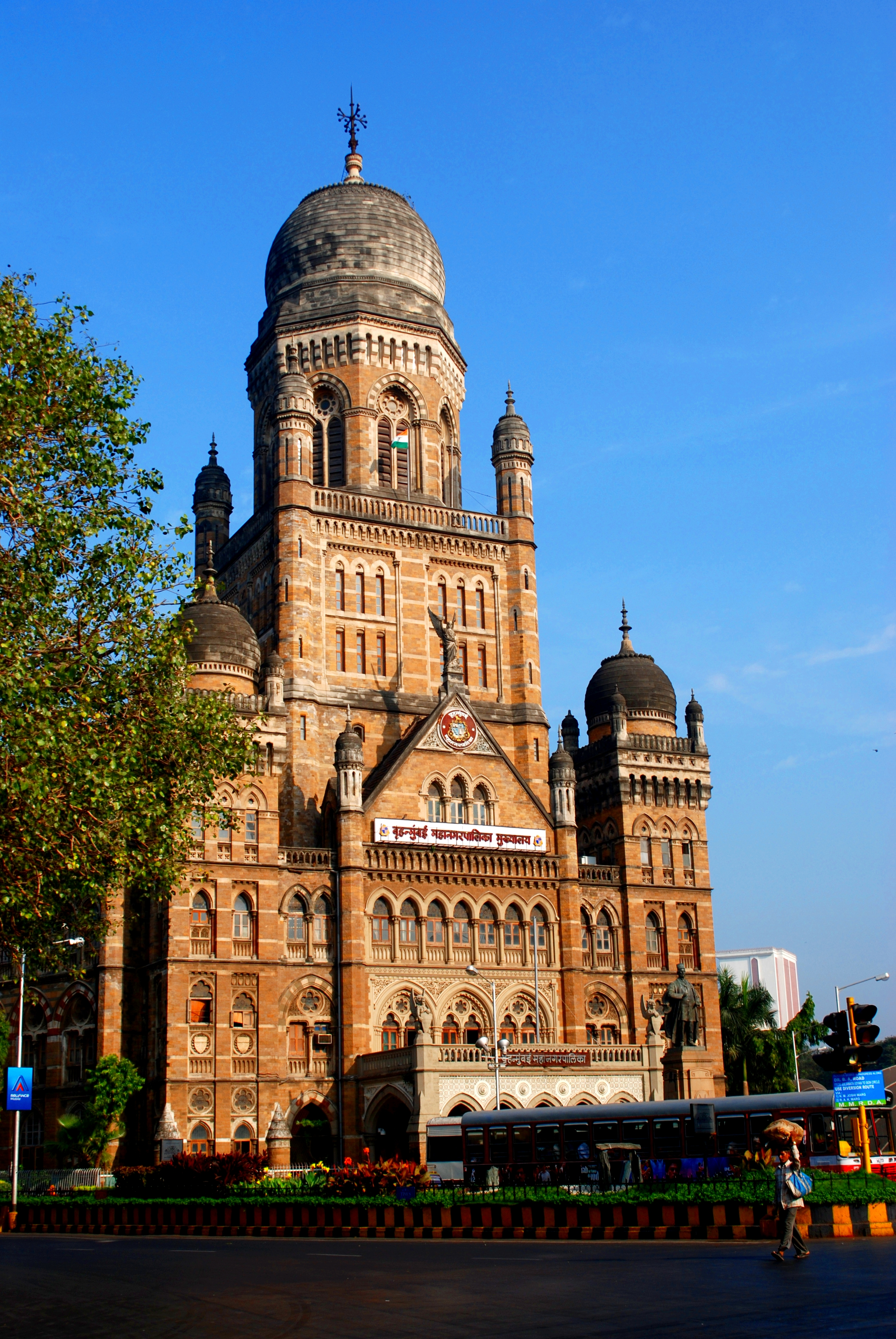 Municipal Corporation of Greater Mumbai Indo-Saracenic Revival style British colonial architecture.